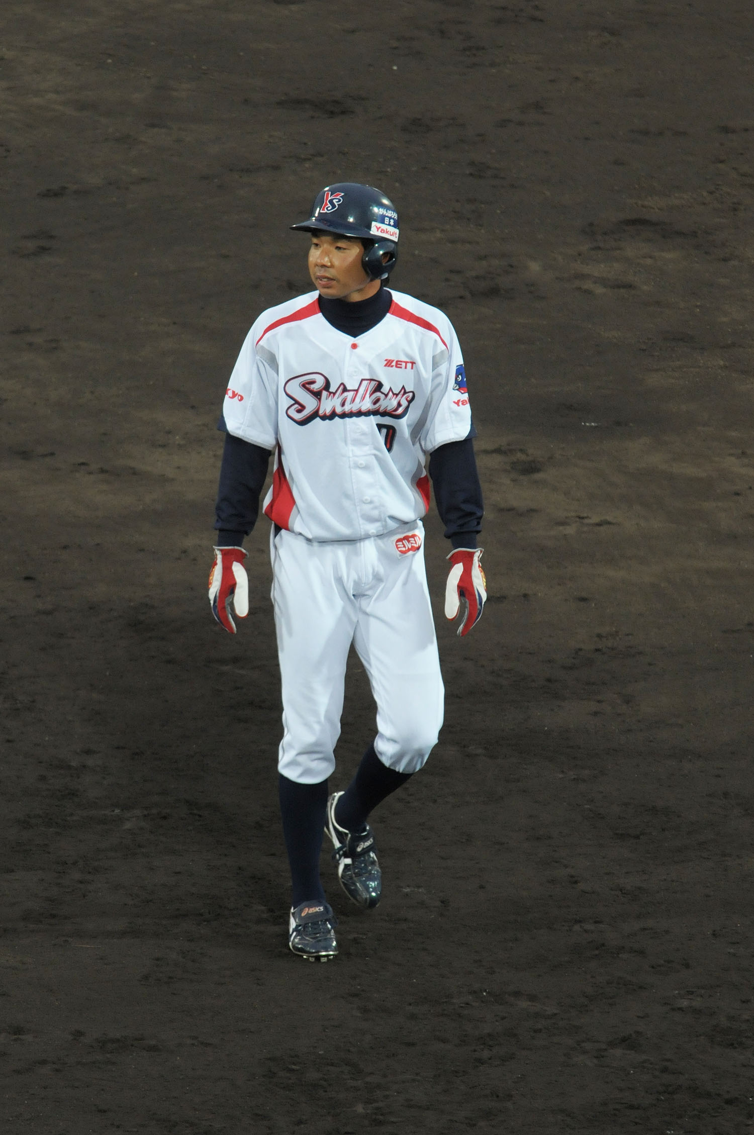 Wataru Hiyane, an infielder of the Tokyo Yakult Swallows, at the Akita Prefectural Baseball Stadium.